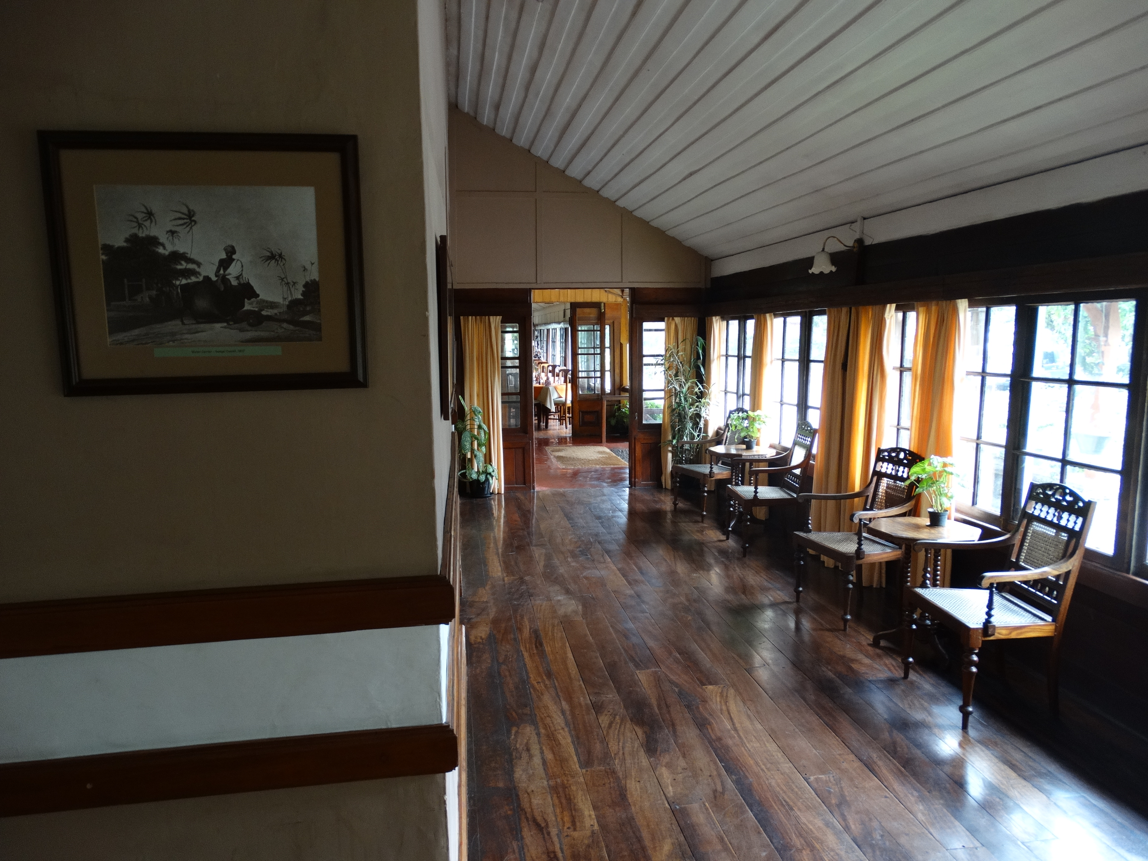 Interior of Colonial-Era Bandarawela Hotel - Bandarawela - Hill Country - Sri Lanka